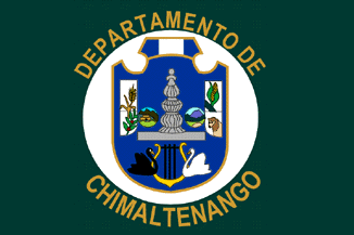 Flag of Chimaltenango.